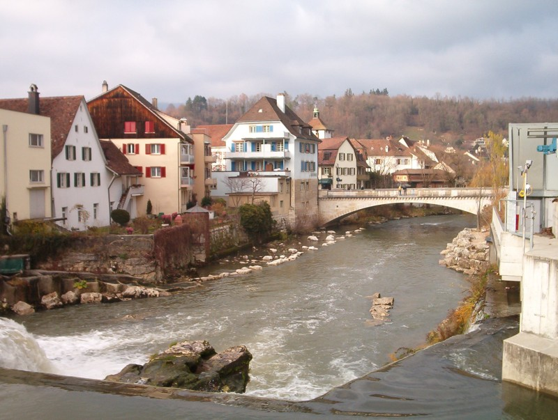 Waterfall of the river Birs in Laufen BL, Switzerland.